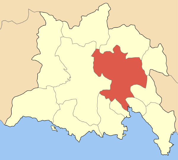 Locator map of Amfissa municipality (Δήμος Αμφίσσης) in Fokida prefecture (Νομός Φωκίδας) in Greece.